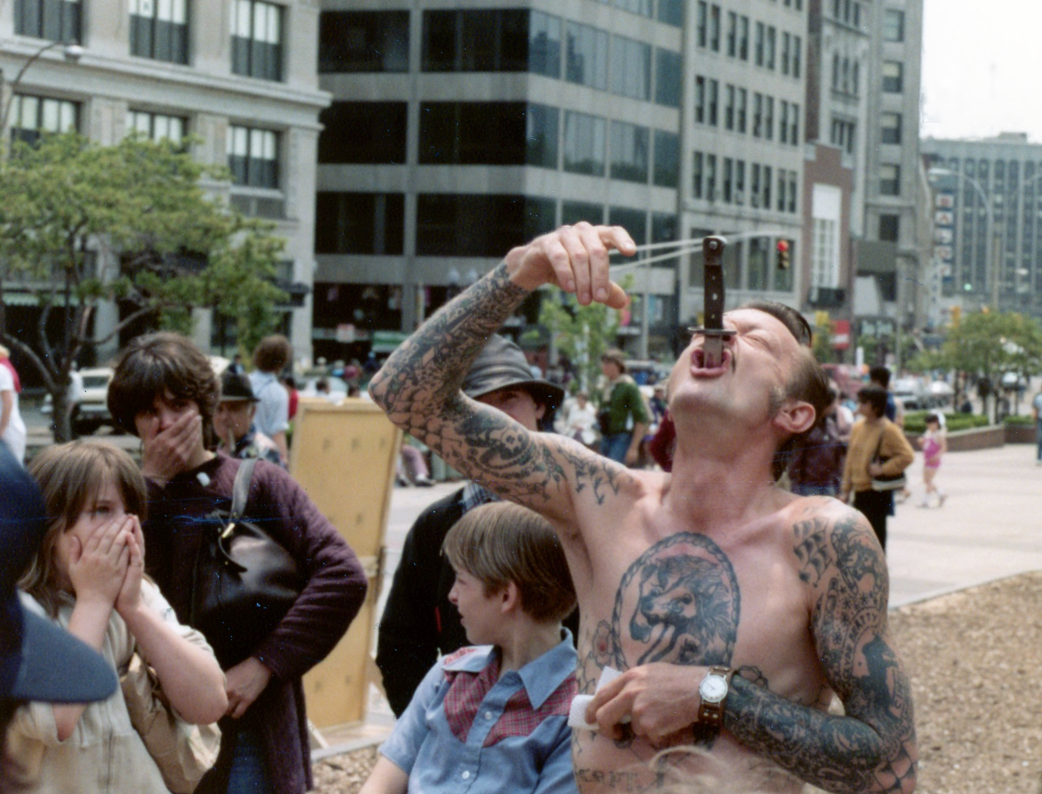 Sword swallower in Boston